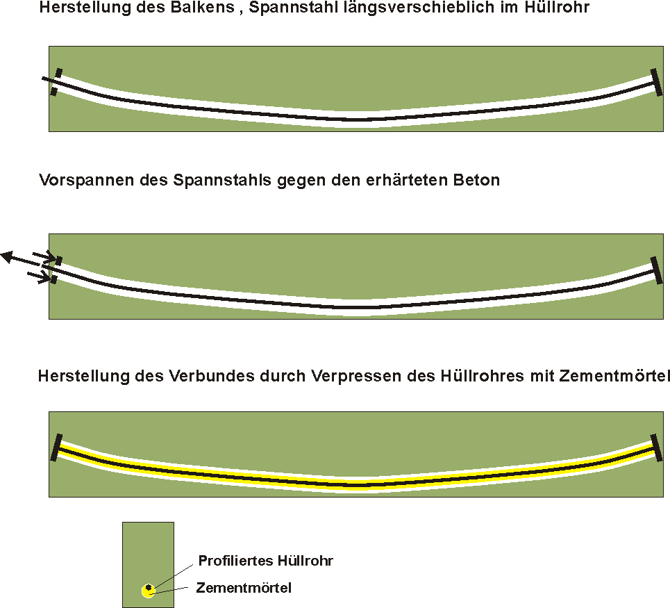 Prestressed concrete, prestressing with subsequent bonding